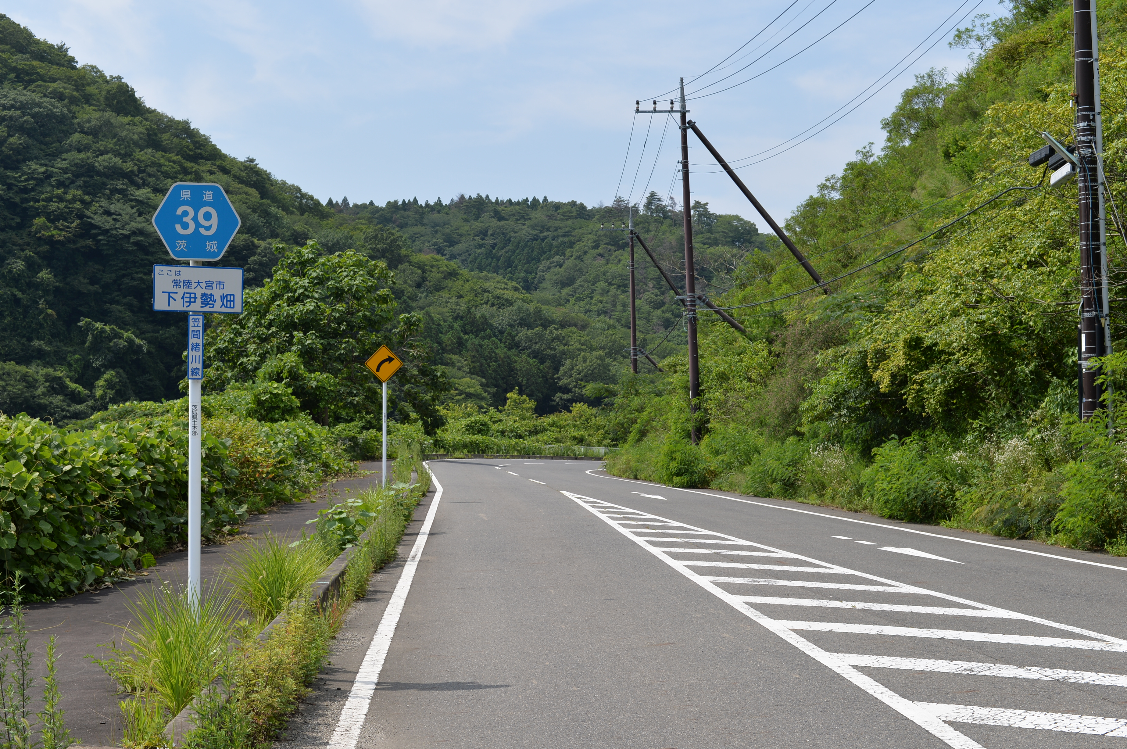 The Ibaraki Prefectural Road Route 39 in Shimoisehata, Hitachiomiya City